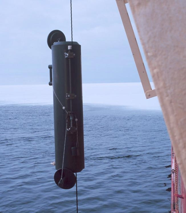 A Niskin bottle being lowered into the water. The two end caps are visible, held in place by a thin cord running round the outside of the cylinder. The bungee cord which will pull them both close is barely visible at the very top of the cylinder. There would appear to be a secondary messenger weight towards the bottom of the device. Photo courtesy of the National Oceanic and Atmospheric Administration photolibrary [1]. Image ID: corp2534, NOAA Corps Collection Location: Ross Sea, Antarctica Photo Date: 1999 January Photographer: Michael Van Woert, NOAA NESDIS, ORA